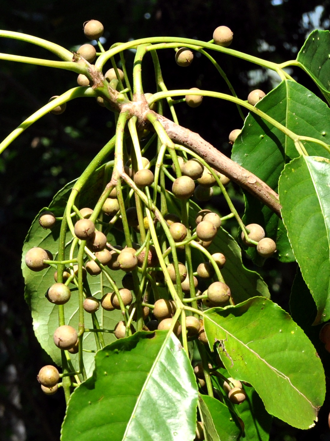 Young fruits of Bischofia javanica; from Blitar, East Java, Indonesia